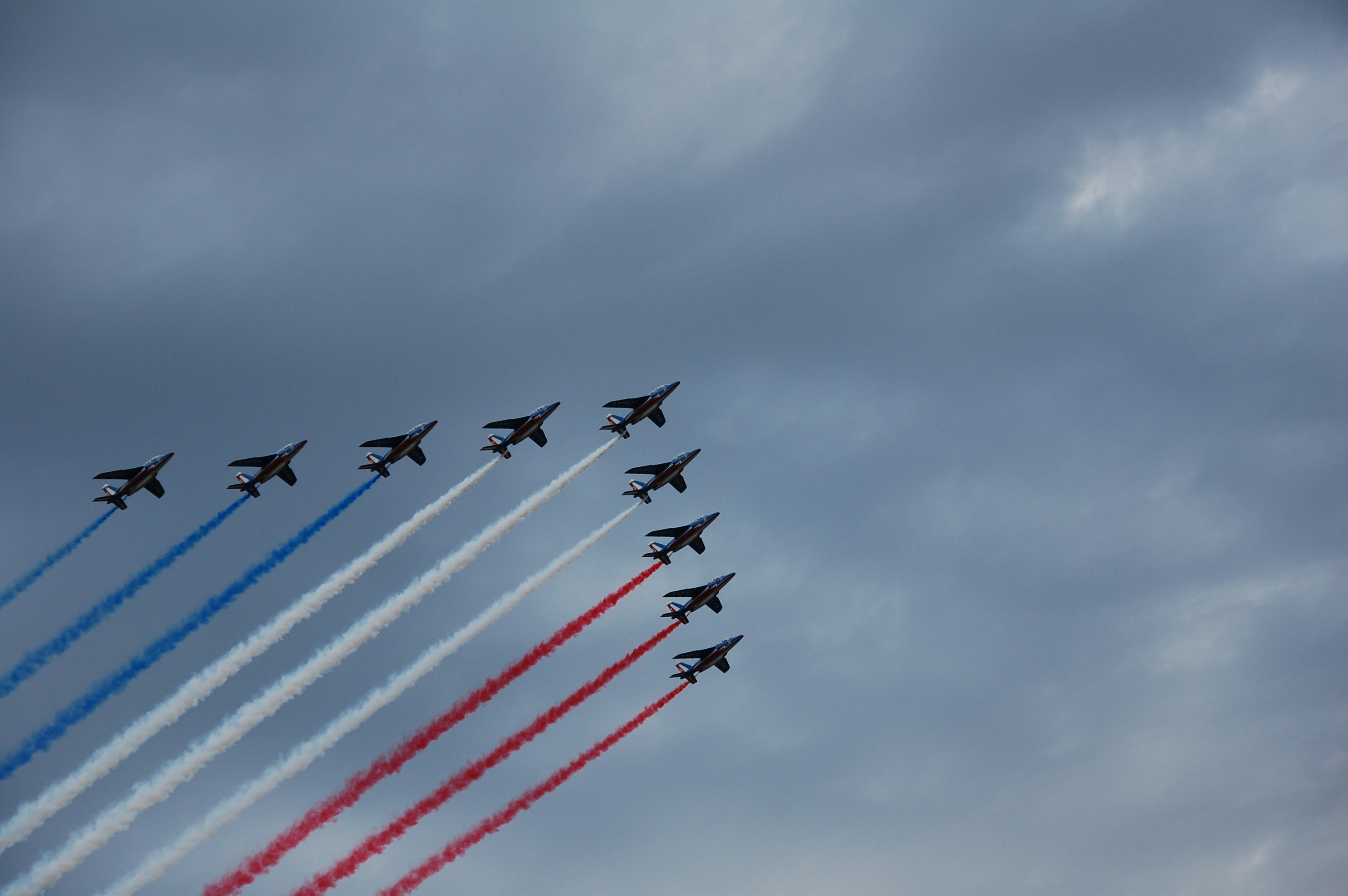 Tricolor smoke trails begin the flyover.